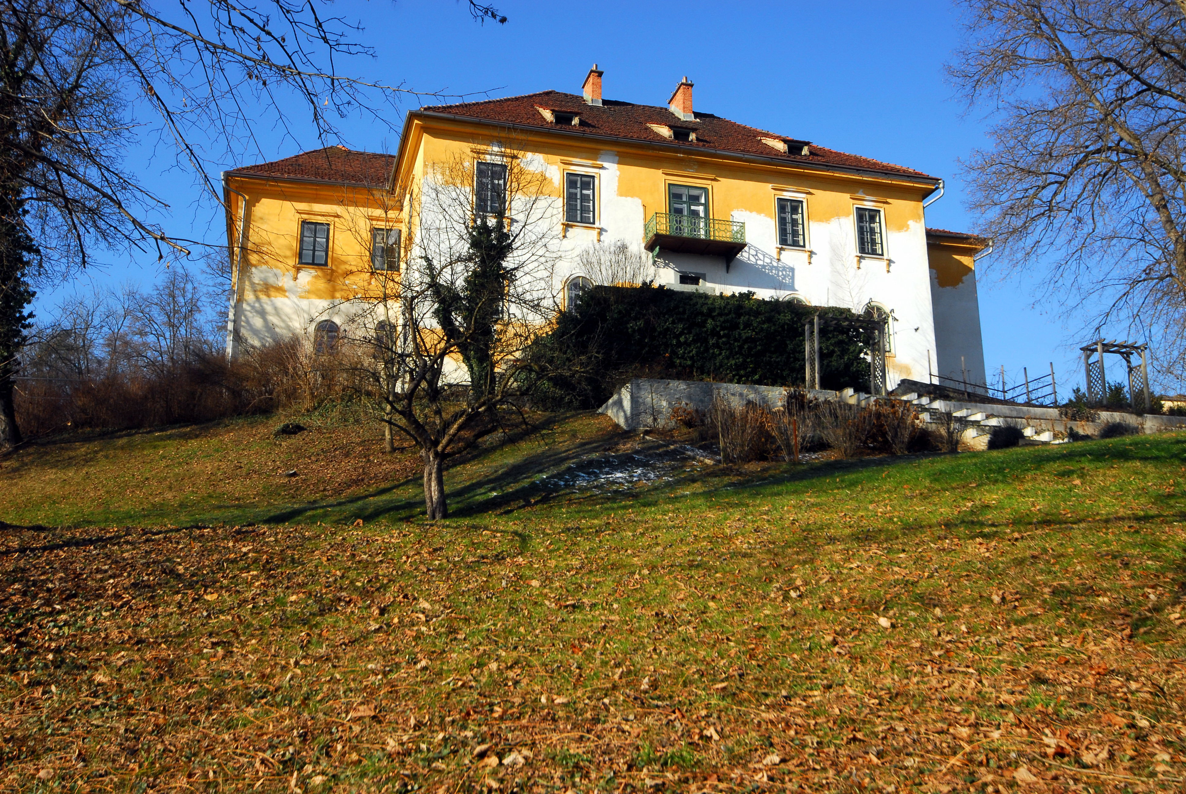 Castle “Zigguln”, Schlossweg #28, in the 12th district "Sankt Martin", the north-west of Klagenfurt, capital of the state Carinthia, Austria, EU